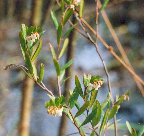 Chamaedaphne calyculata Photo by Algirdas, Lithuania